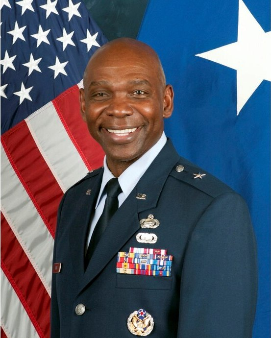 Brig. Gen. Ondra L. Berry